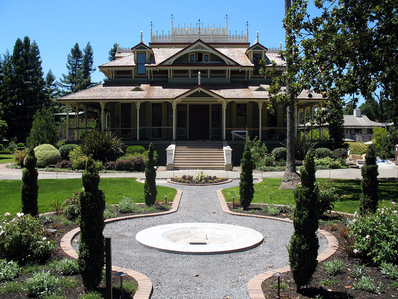 National Register of Historic Places listings in Sonoma County, California. McDonald Mansion - also known as Mableton, 1015 McDonald Ave., Santa Rosa, California. Built in 1879 as the summer home of early Santa Rosa businessman Mark McDonald.